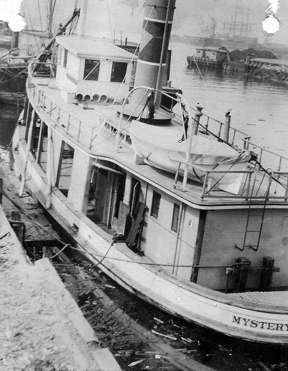 The fishing trawler Mystery, built in Tottenville, Staten Island in 1886 by A. C. Brown. Mystery served briefly in the US Navy as USS Mystery (ID-2744) in 1918-19. This photograph was probably taken in 1918, at the time the ship was inspected by the navy for possible use.